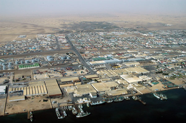 Close-up aerial photo of Walvis Bay (Walfischbucht)